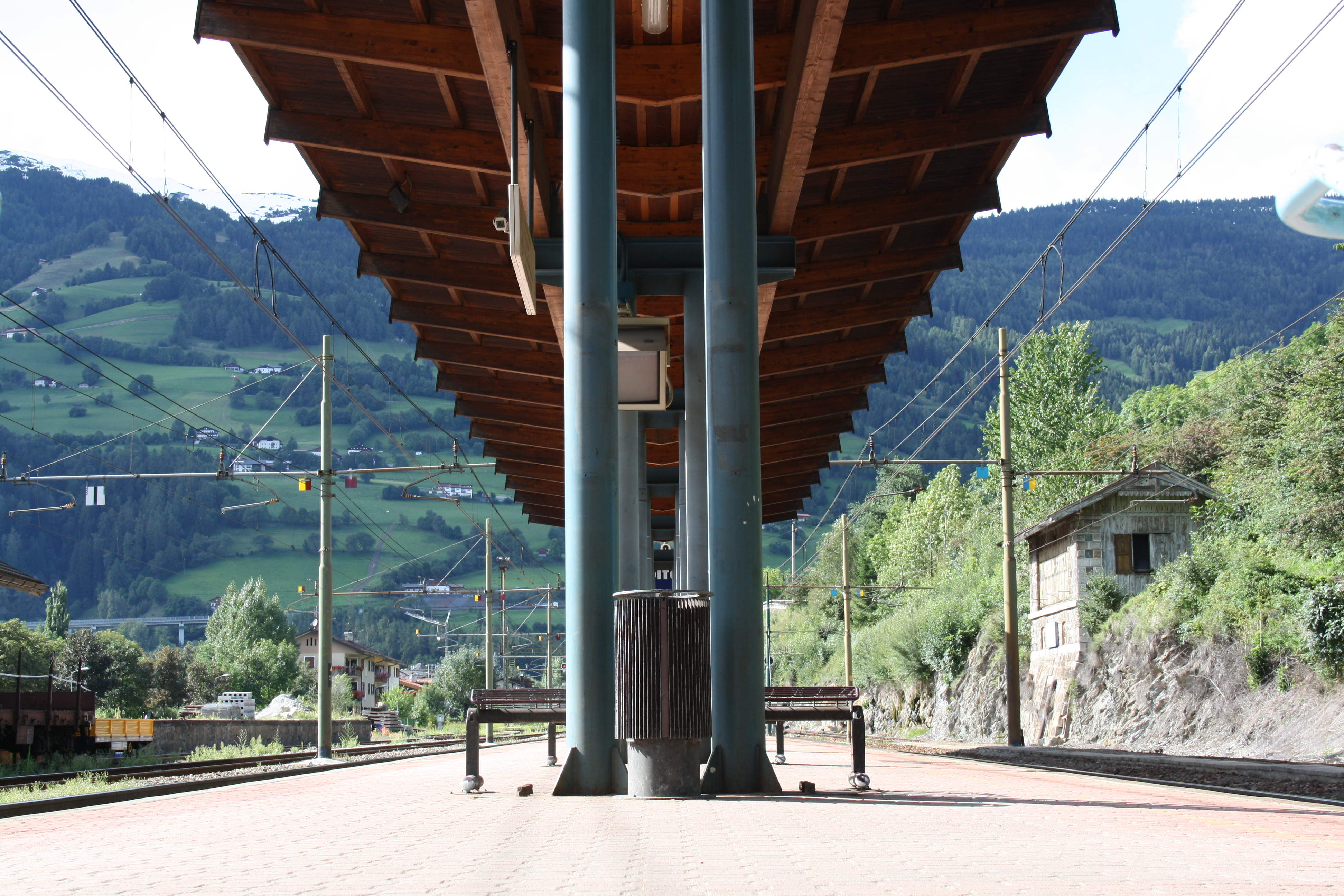 Italy, South Tyrol, Sterzing, Train station. Passangers platform and shelter.